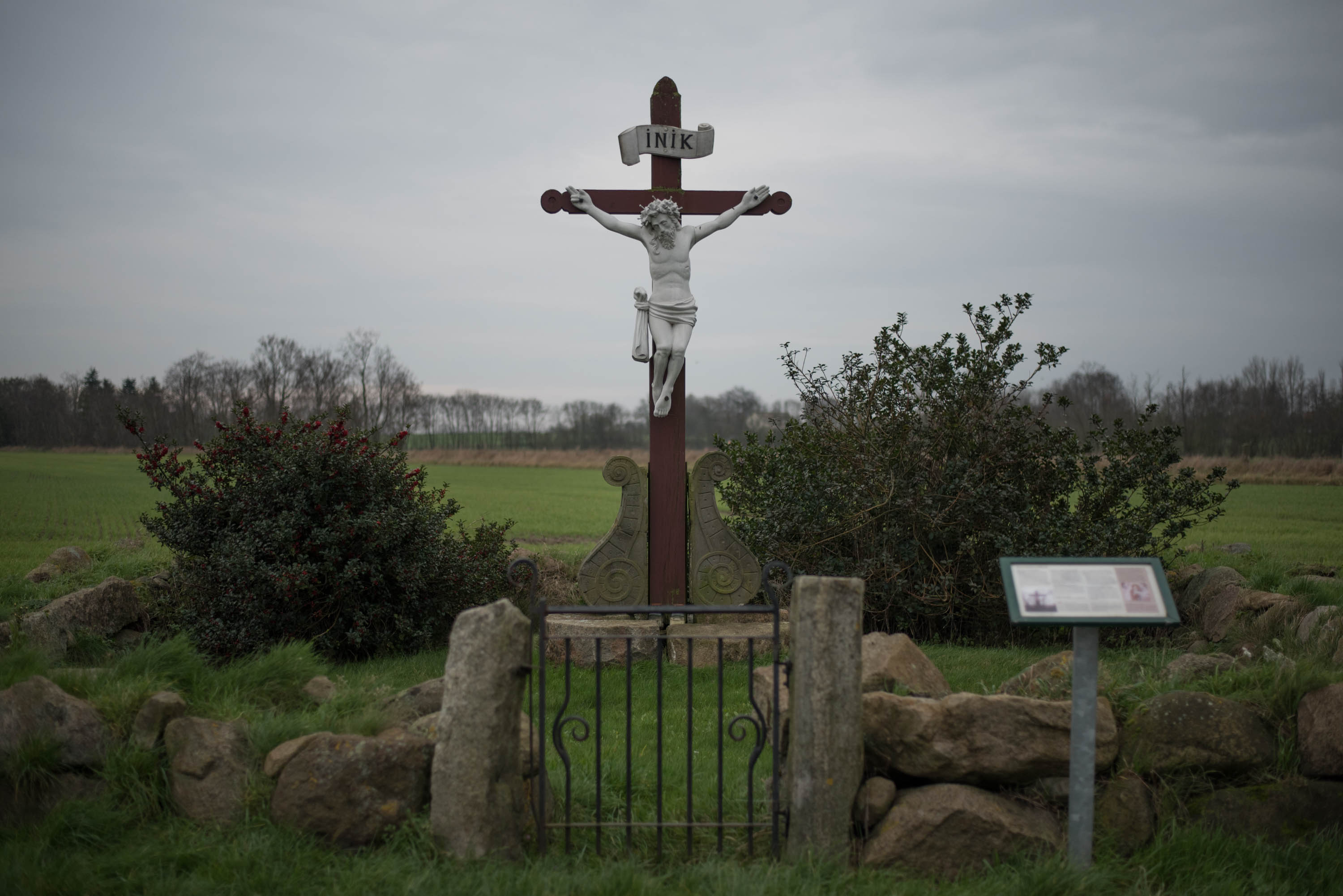 Crucifix at Skovsbo, Rynkeby, Denmark